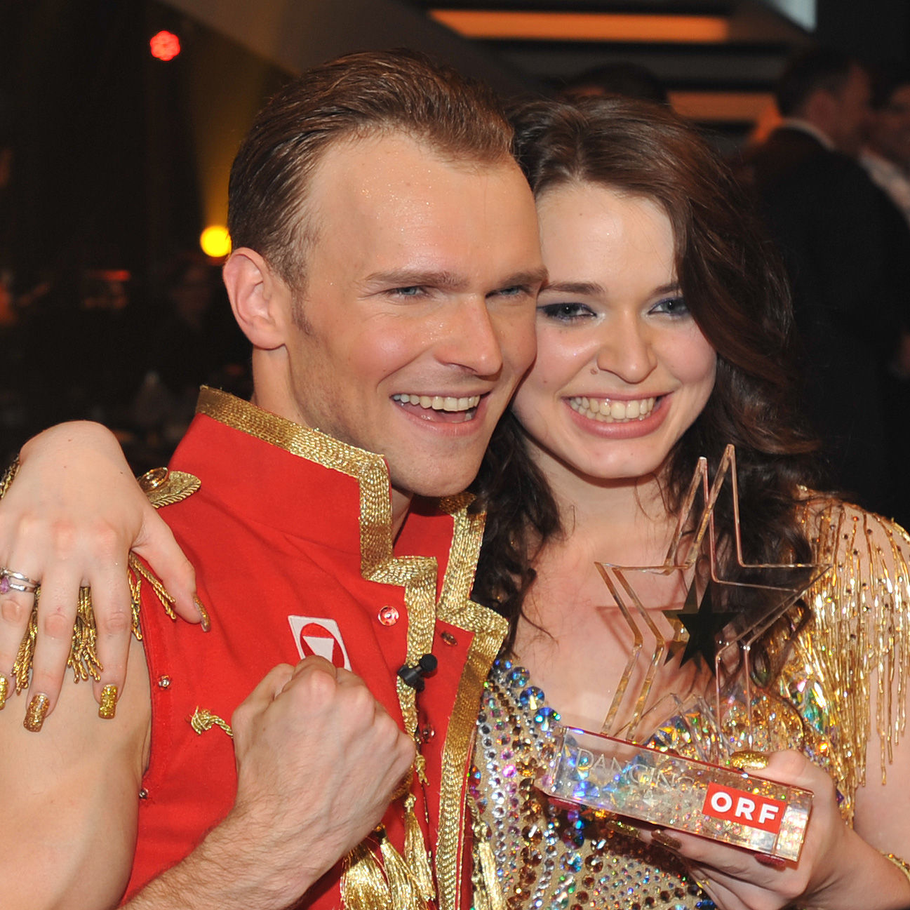 "Dancing Stars" am 16. Mai 2014: Roxanne Rapp, Vadim Garbuzov